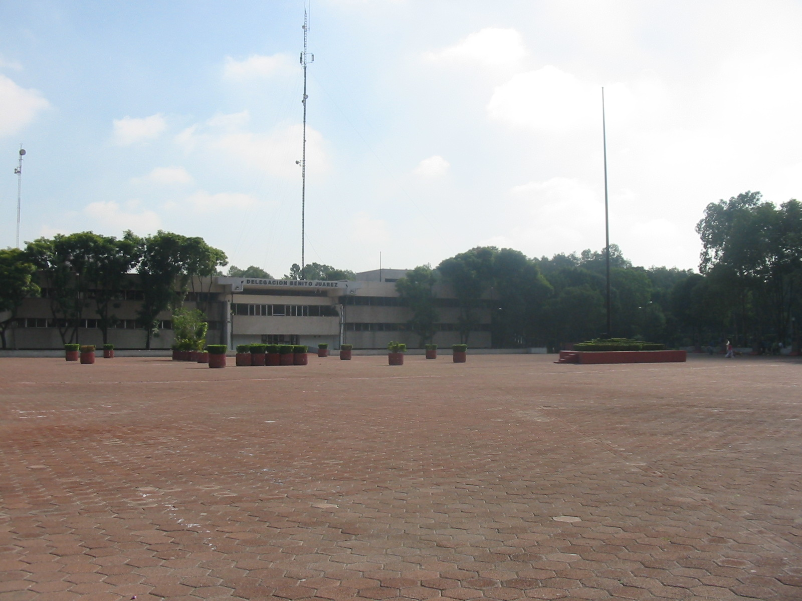 Main offices of Delegacion Benito Juarez located on Calle Municipio Libre